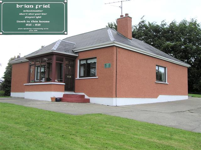 Brian Friel's Residence, Omagh. This bungalow is located on the Tamlaght Road, opposite the Spar Supermarket. He occupied this dwelling from 1935-39 and is well known for being a short story writer and playwright. More at A plaque was unveiled several weeks ago to commemorate his time living here.